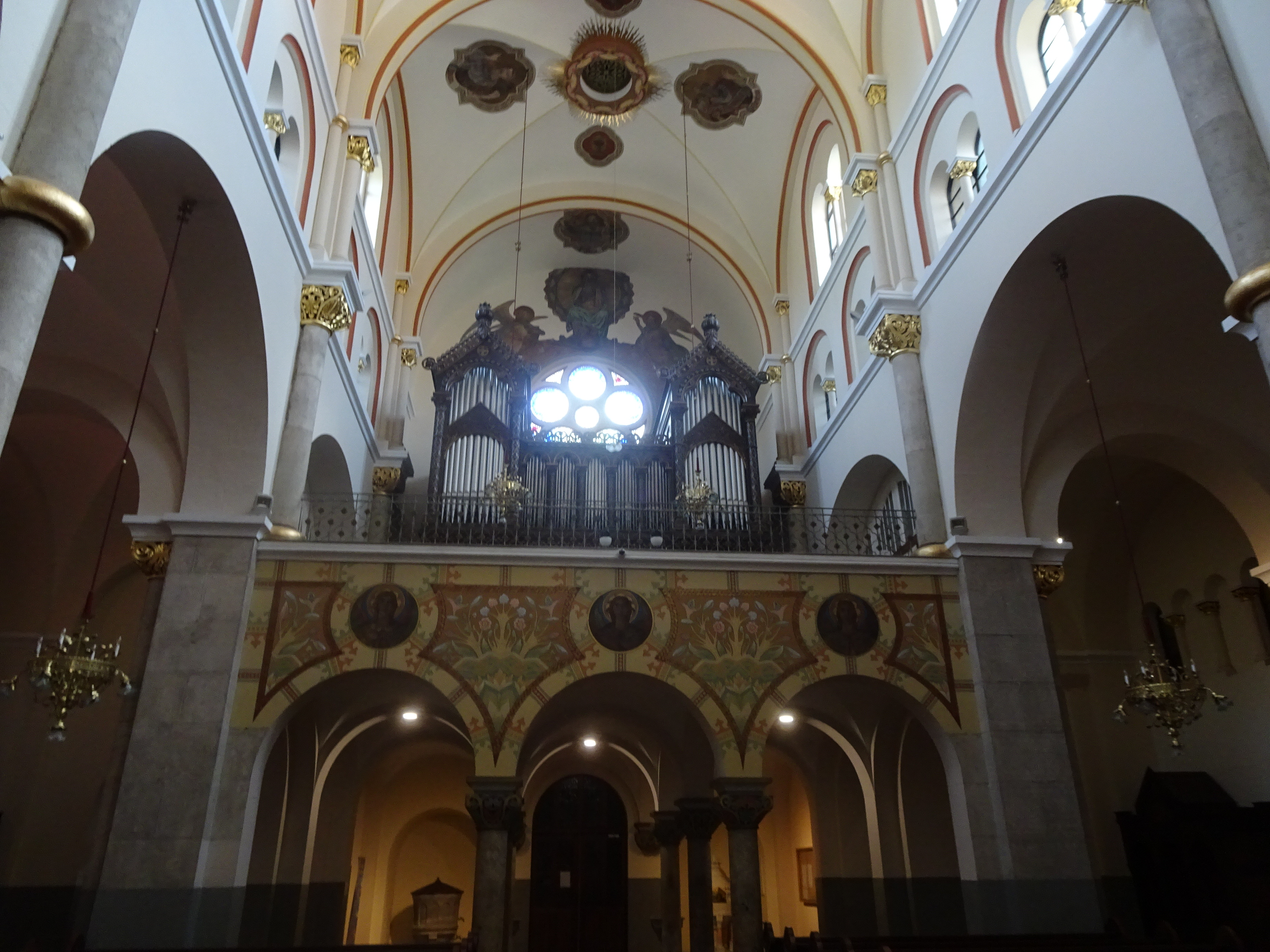 Interior of Basilica of Our Mother of Mercy, Maribor, Slovenia British